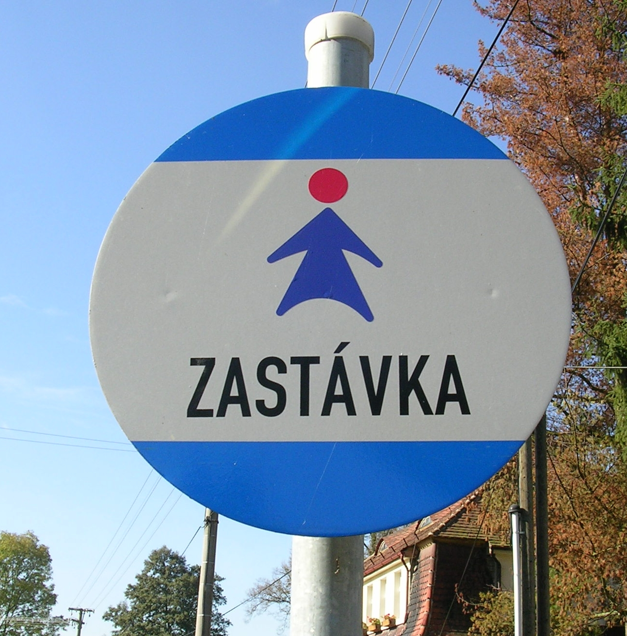 bus stop sign, the company Dopravní podnik Ústeckého kraje, Czech republic